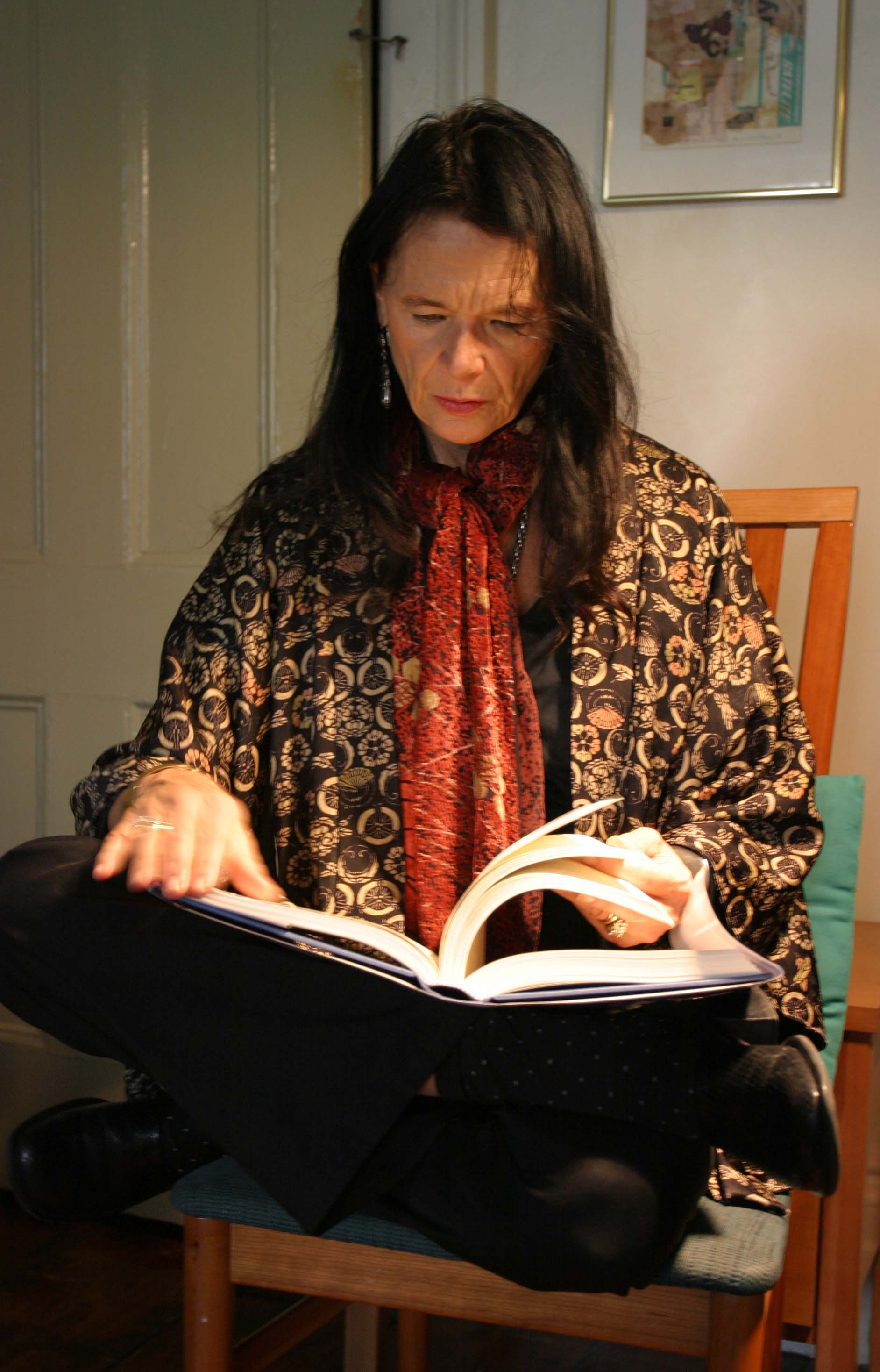 Anne Waldman, photo by Gloria Graham taken during the video taping of Add-Verse, 2003